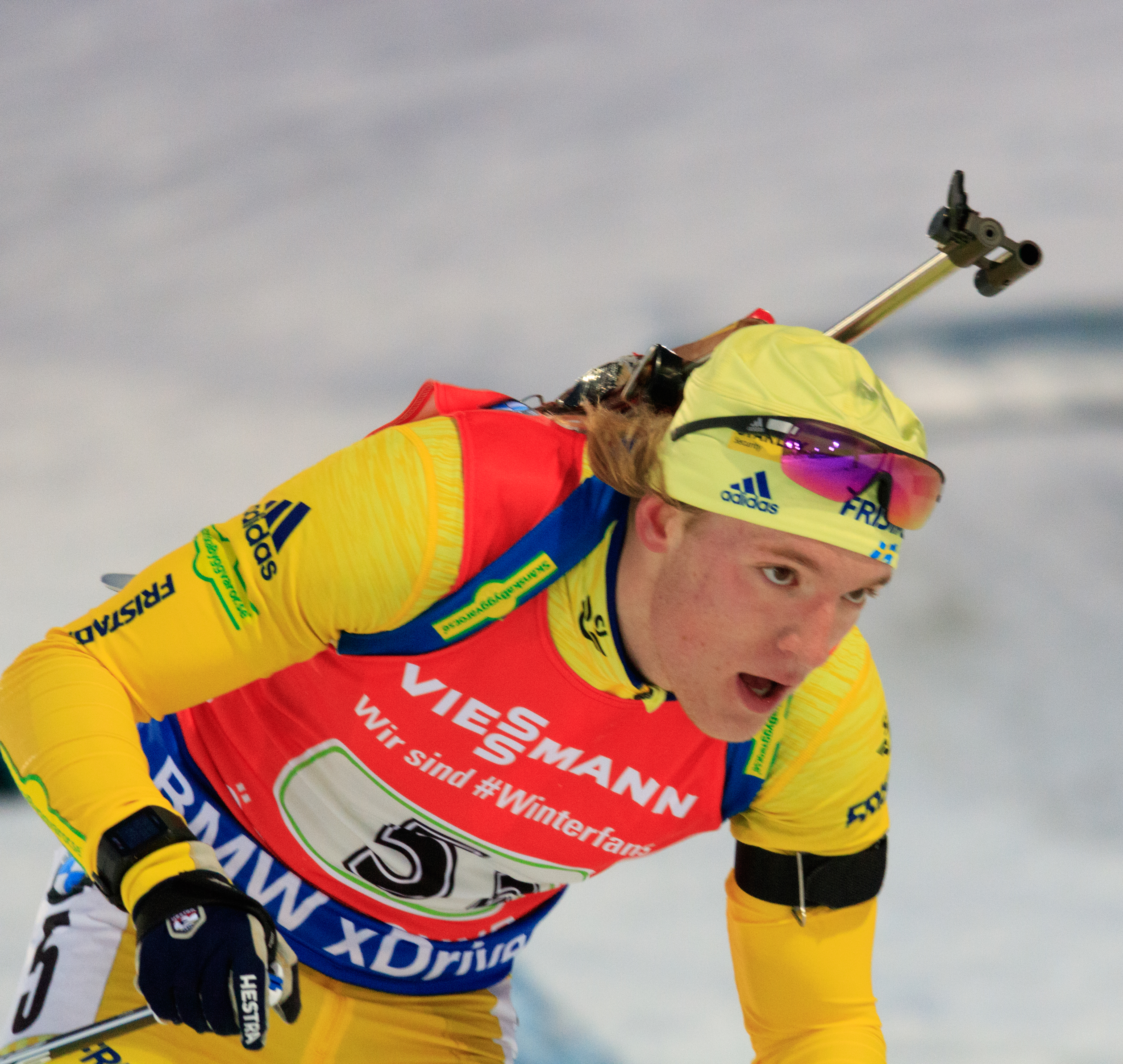 Swedish biathlete Sebastian Samuelsson in Östersund